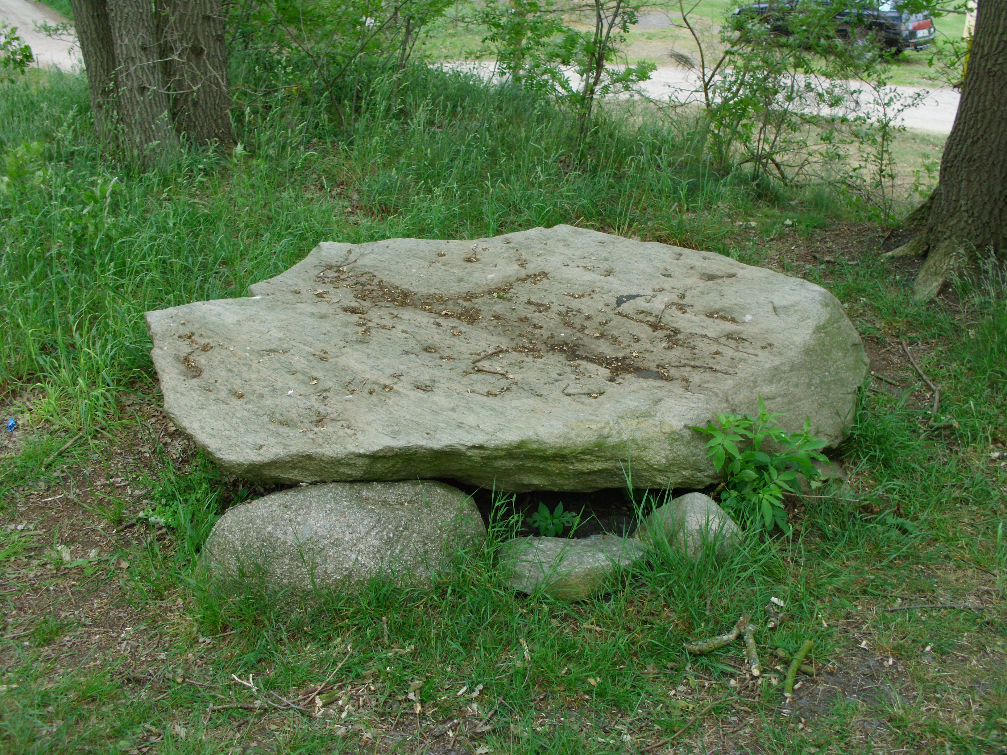 full view of the Bargloyer Steinkiste